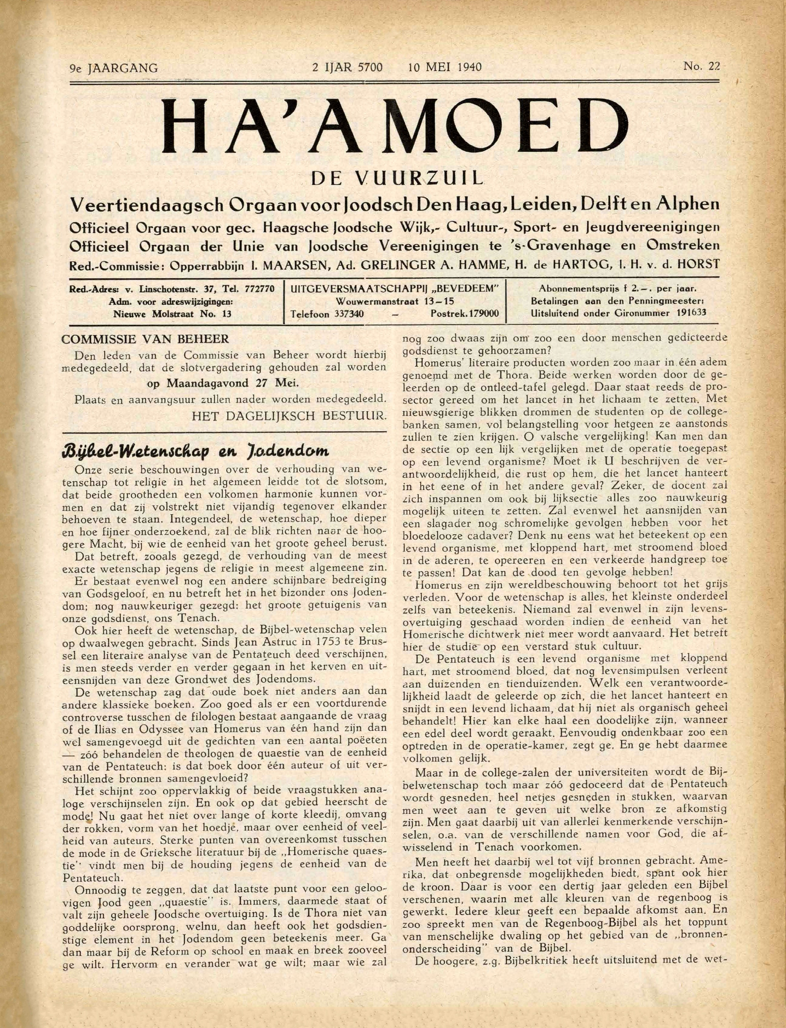 Ha'amoed - De Vuurzuil, was the name of a biweekly paper for and by the Jewish community of The Hague, Leiden, Delft and Alphen. Its head editor was Isaac Maarsen (born Amsterdam 1892), the last Chief Rabbi of the city of The Hague. He died in concentration-camp Sobibór on 23 July 1943. The date of this edition of the paper is 10 May, 1940, which is the day when The Hague was being attacked by Nazi-German bomber airplanes and paratroopers where dropped in its surroundings, starting the Battle for The Hague.